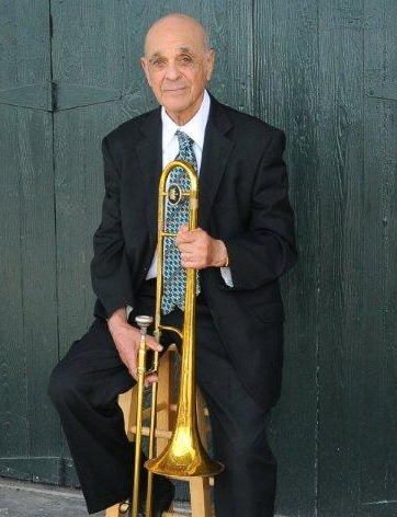 Profile image of Wendell Eugene, New Orleans jazz musician.